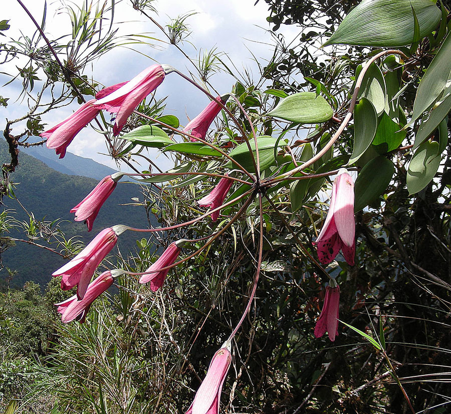 A pink species, here seen high in the Condor Range along the Peru-Ecuador border. In context at